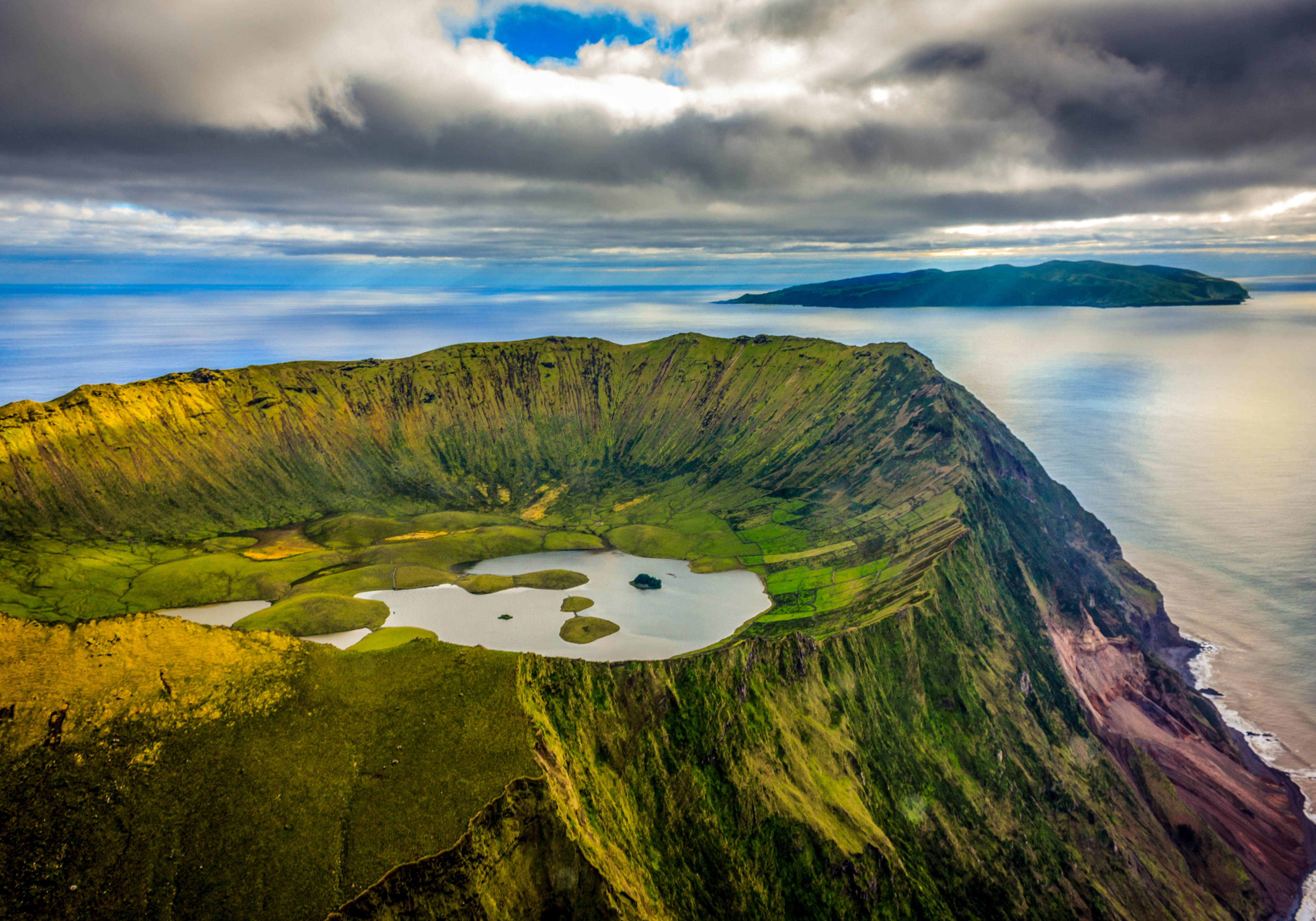 Corvo Island in the Azores